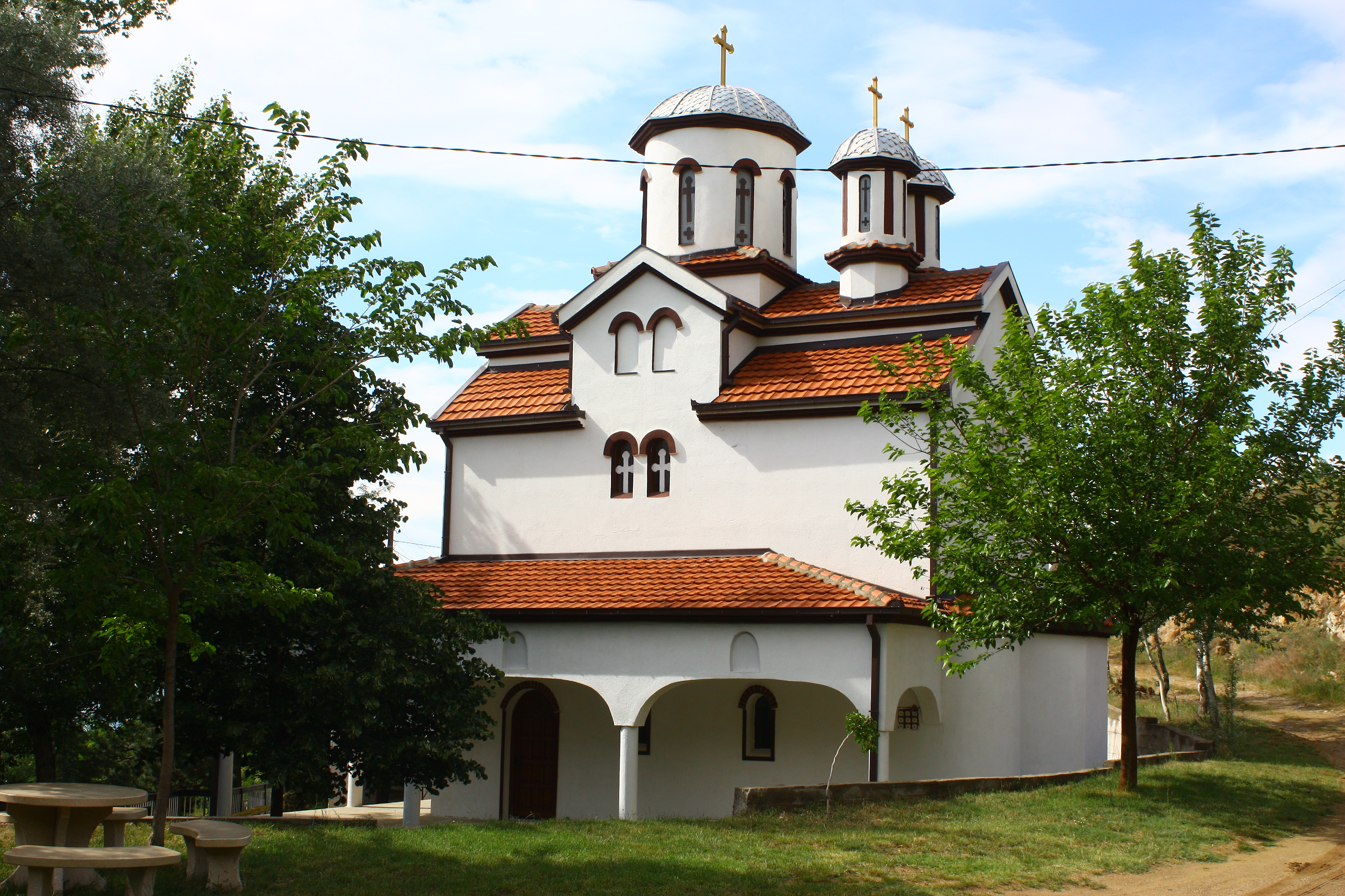 St. Petka Church in Kalauzlija, Macedonia